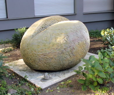 Memorial stone, "Schrippenkirche" by Michael Spengler, 2005, Ackerstraße 137, Berlin-Gesundbrunnen, Germany